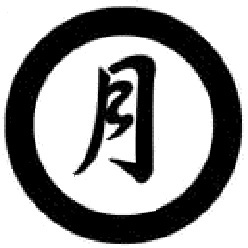 kamon.jpg